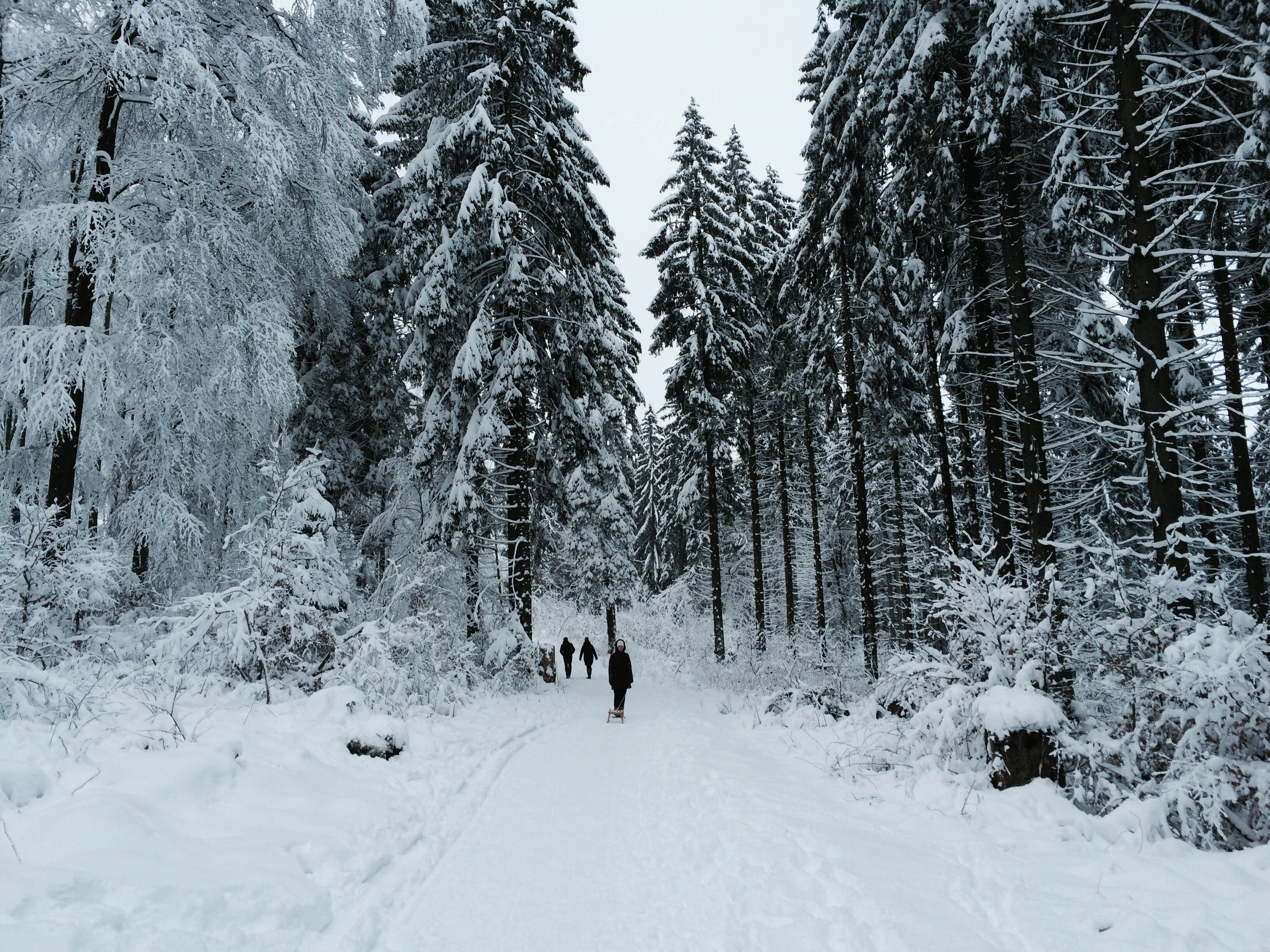 snowy path across the forest at Hohes Gras in Kassel, Germany